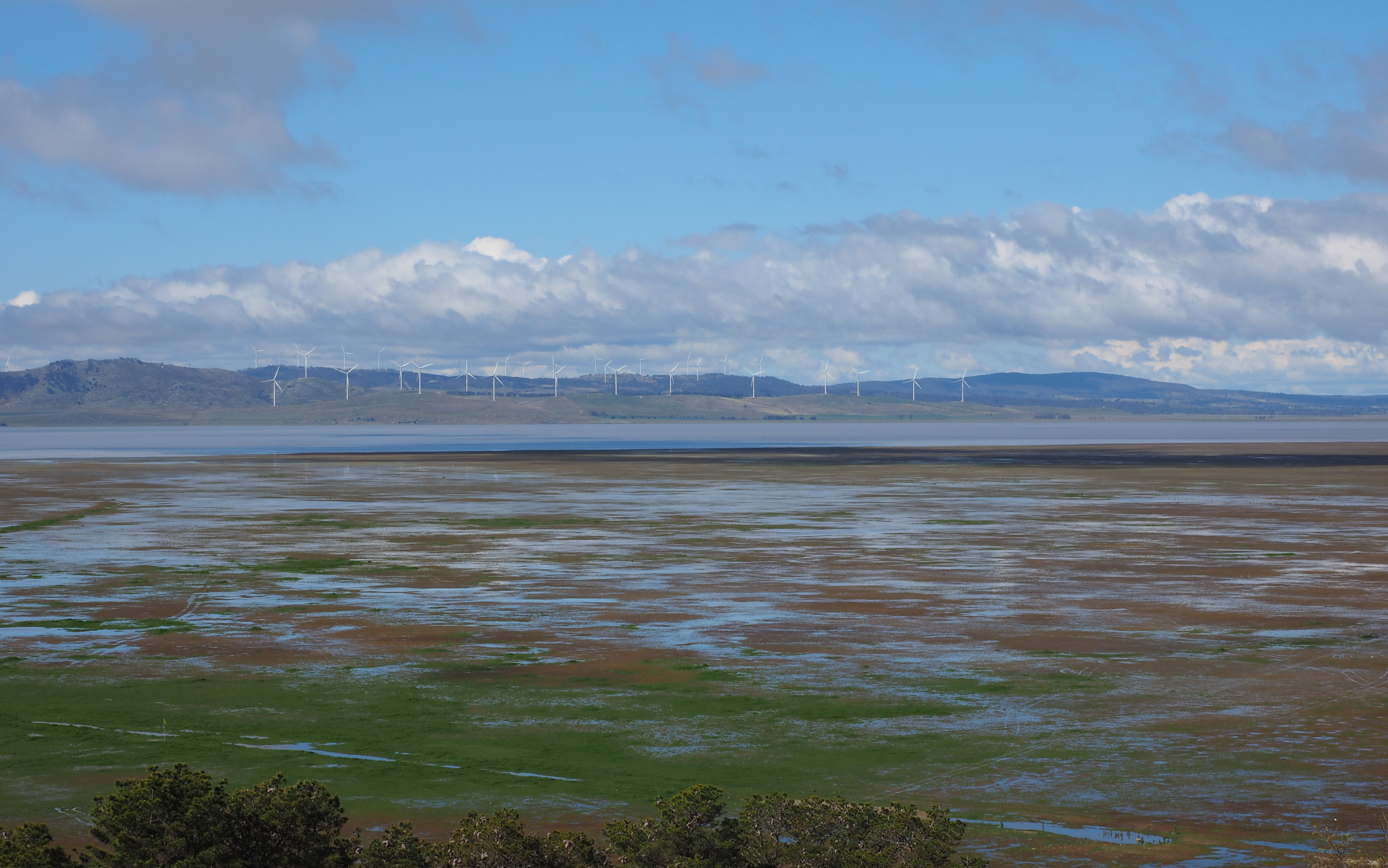 Lake George viewed from the Weereewa Lookout after it was partially filled by several rainy days